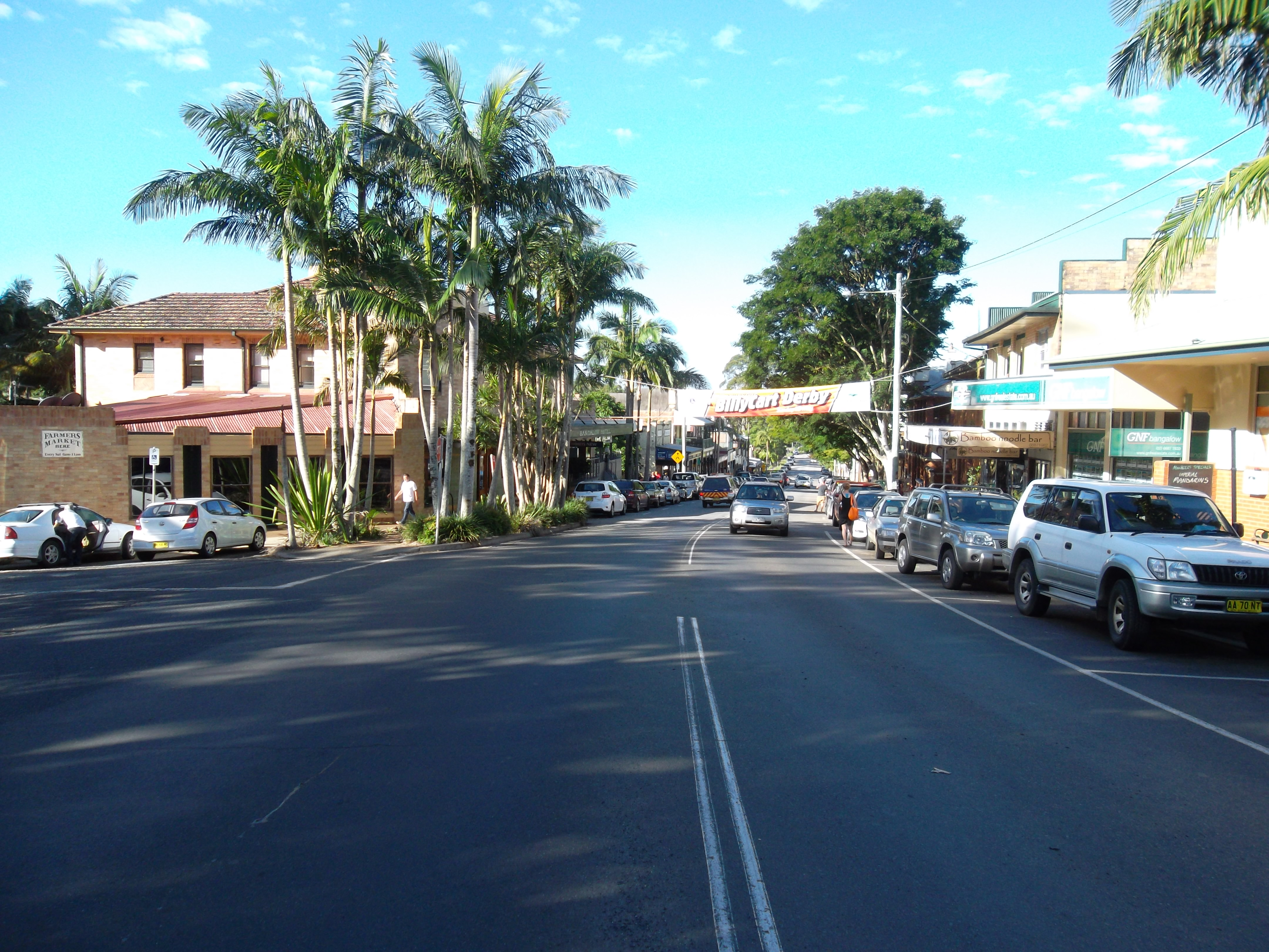 Byron Street, Bangalow, NSW, looking west. Byron Street is Bangalow's main street.